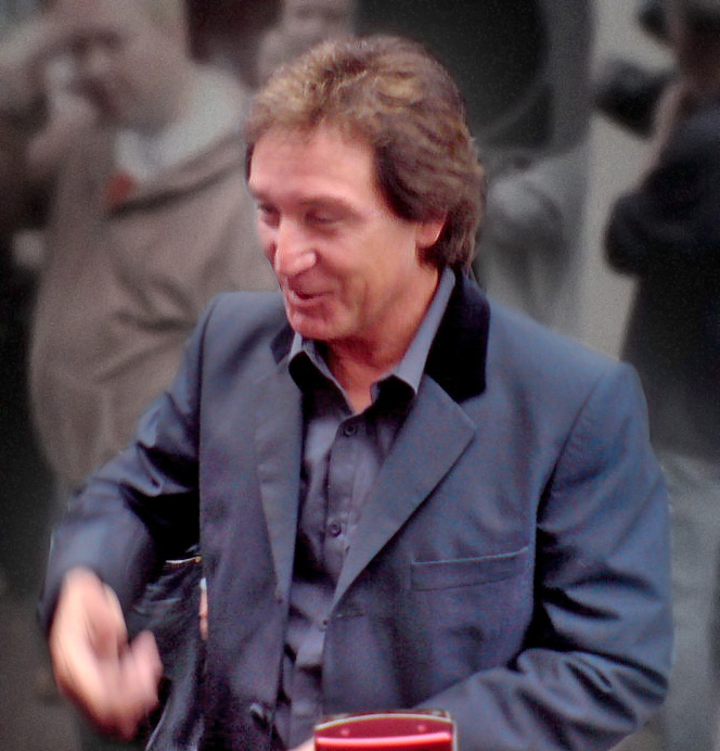 Kenney Jones, drummer of the Small Faces, the Faces, and the Who followed by media in 2007(Photoshopped version of existing file)